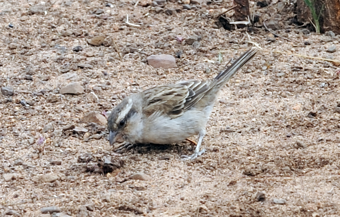 A female Iago Sparrow (Passer iagoensis) at Santa Maria, Isle of Sal, Cape Verde.